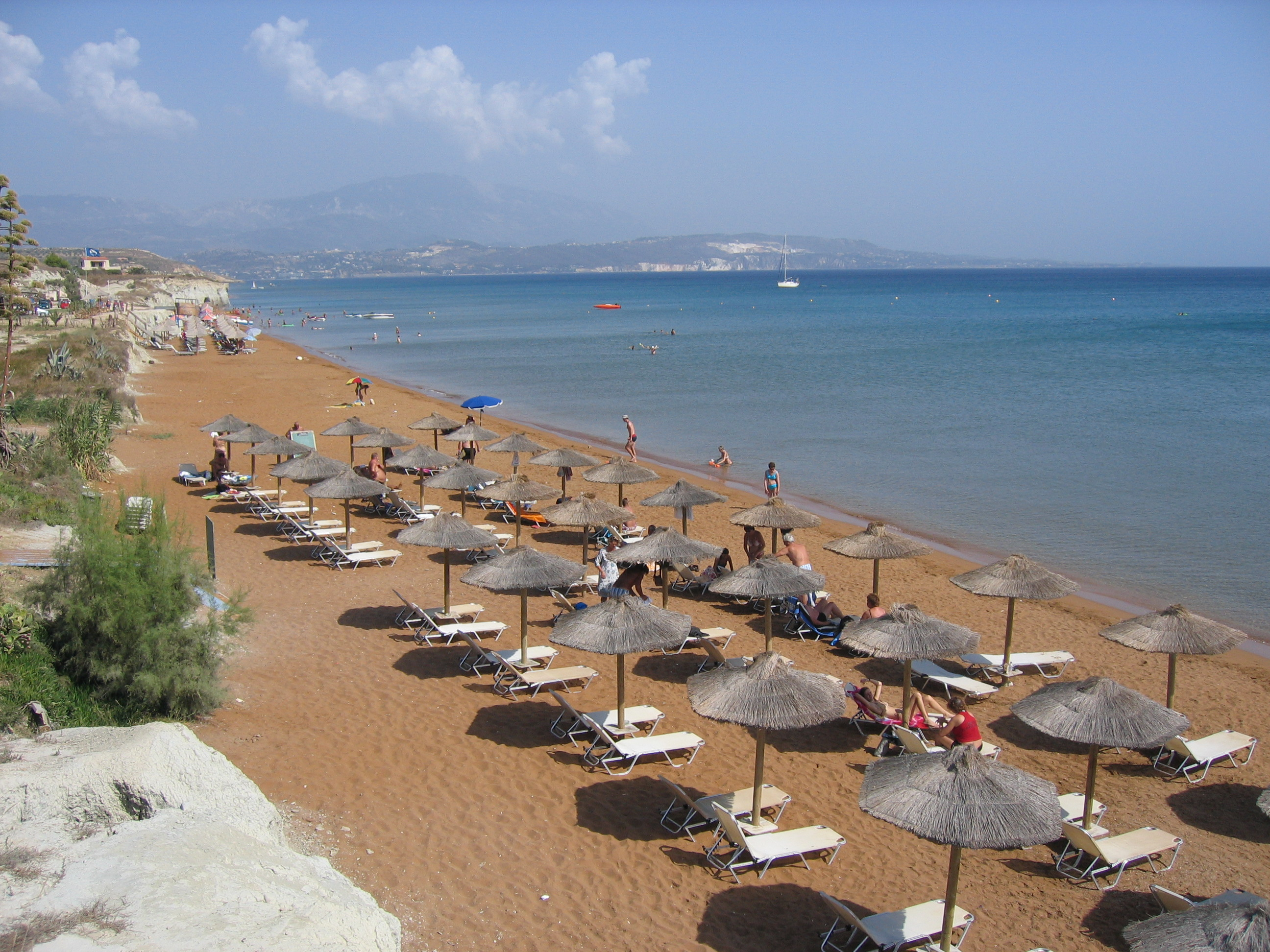 Xi Beach, Paliki, Kefalonia, Greece. Loungers and shade near hotel.